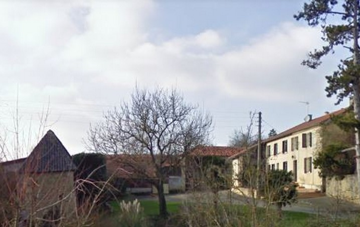 The village of Callian in the department of Gers in France.